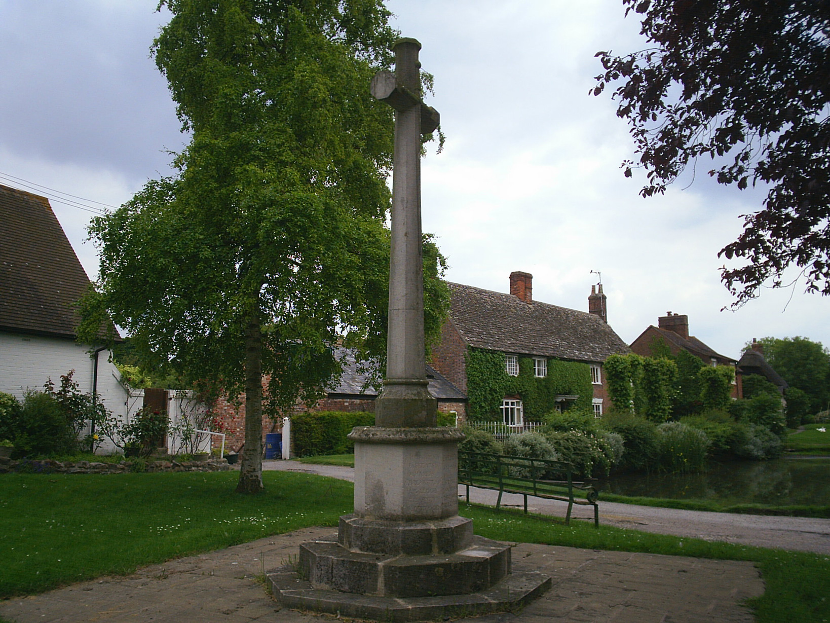 I took this photo on 9/06/2005. It had no URL as it is not pictured on any other web page (As yet)